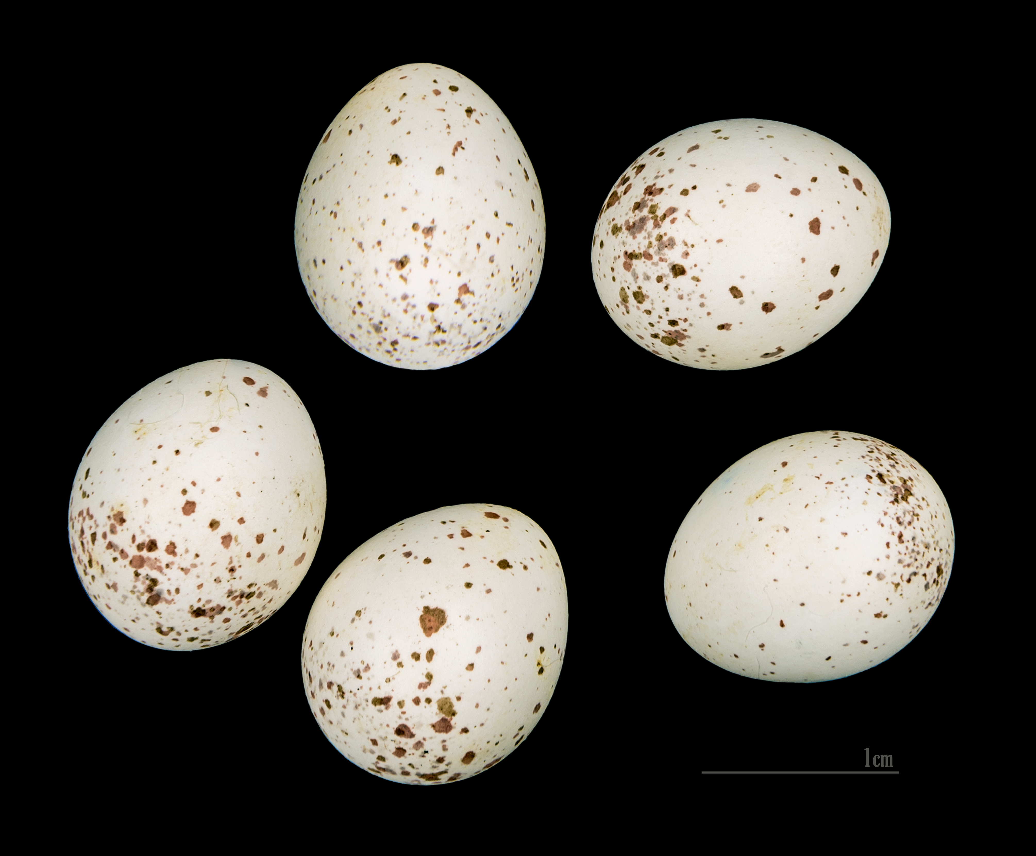 Egg of Coal Tit (ledouci). Collection of Jacques Perrin de Brichambaut.